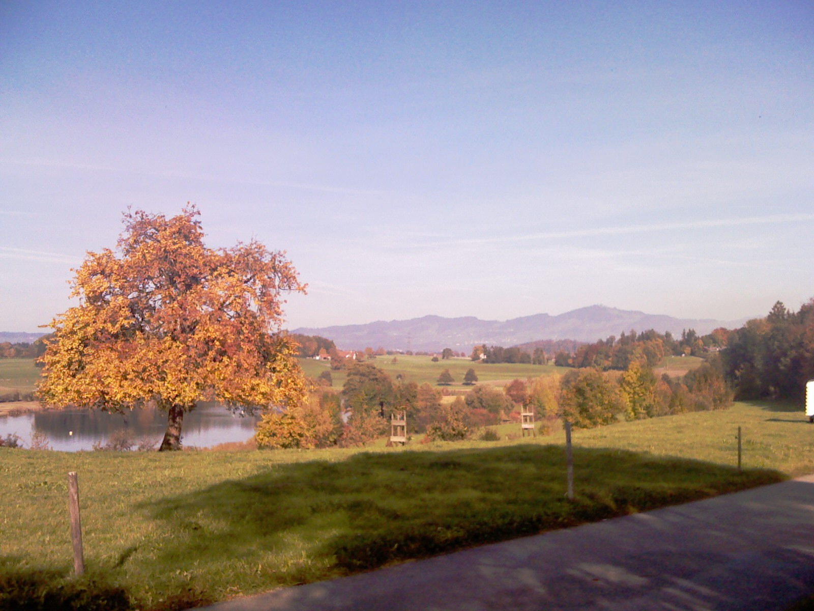 Lützelsee with view to BachtelEsperanto: Lageto Lützelsee kun rigardo al monto Bachtel